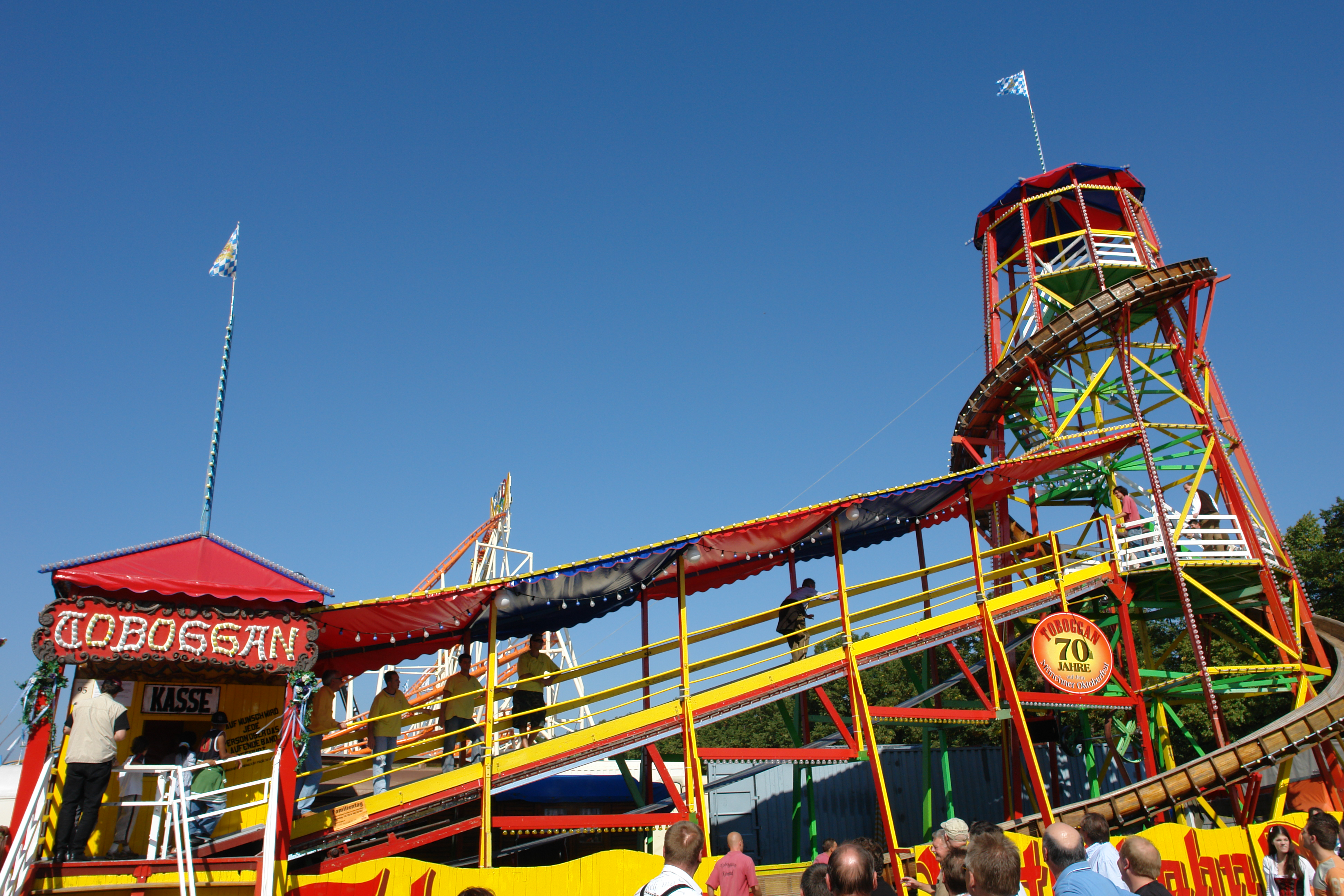 Nostalgic Toboggan ride on the Oktoberfest.